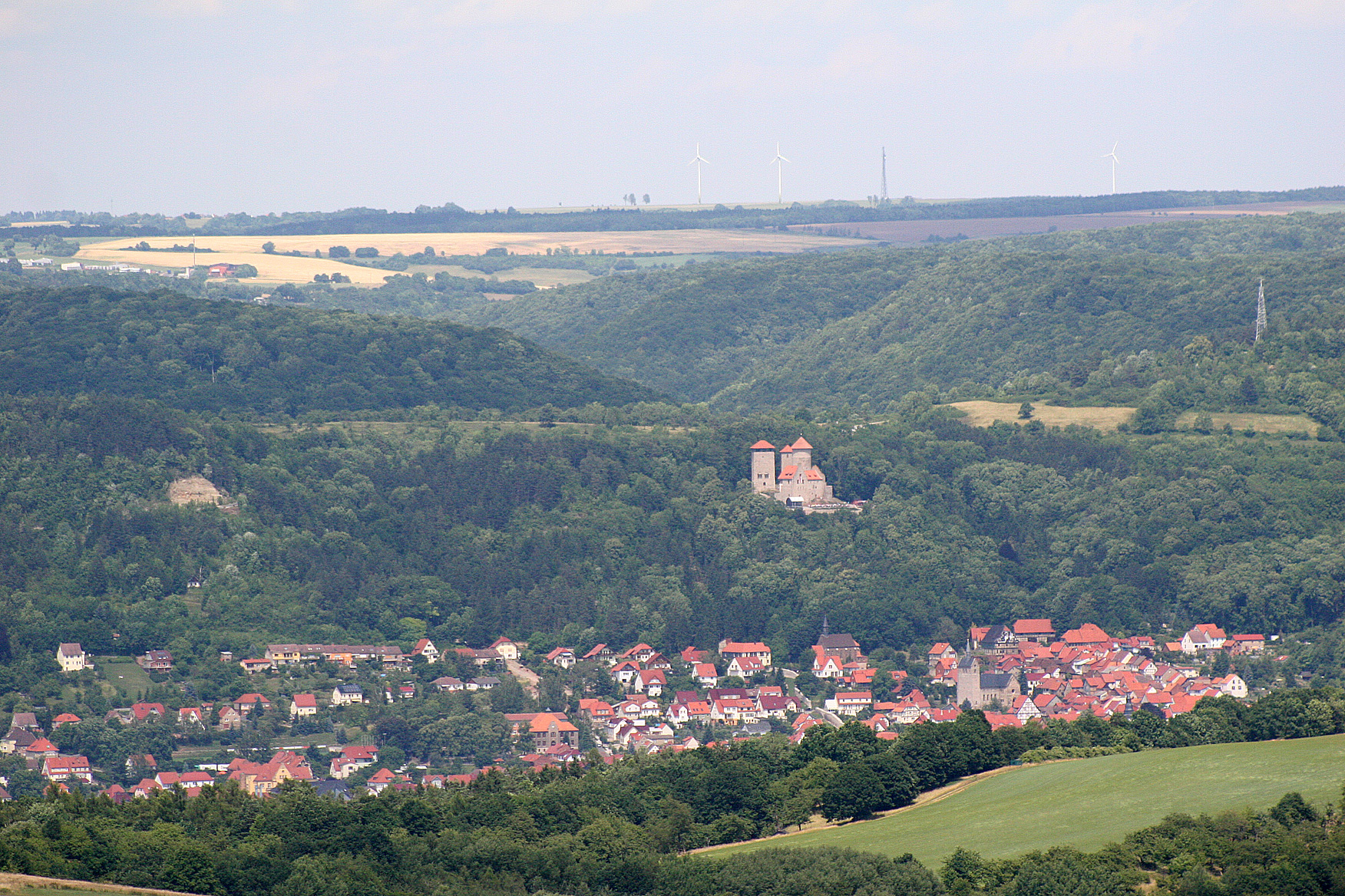 Blick auf Treffurt